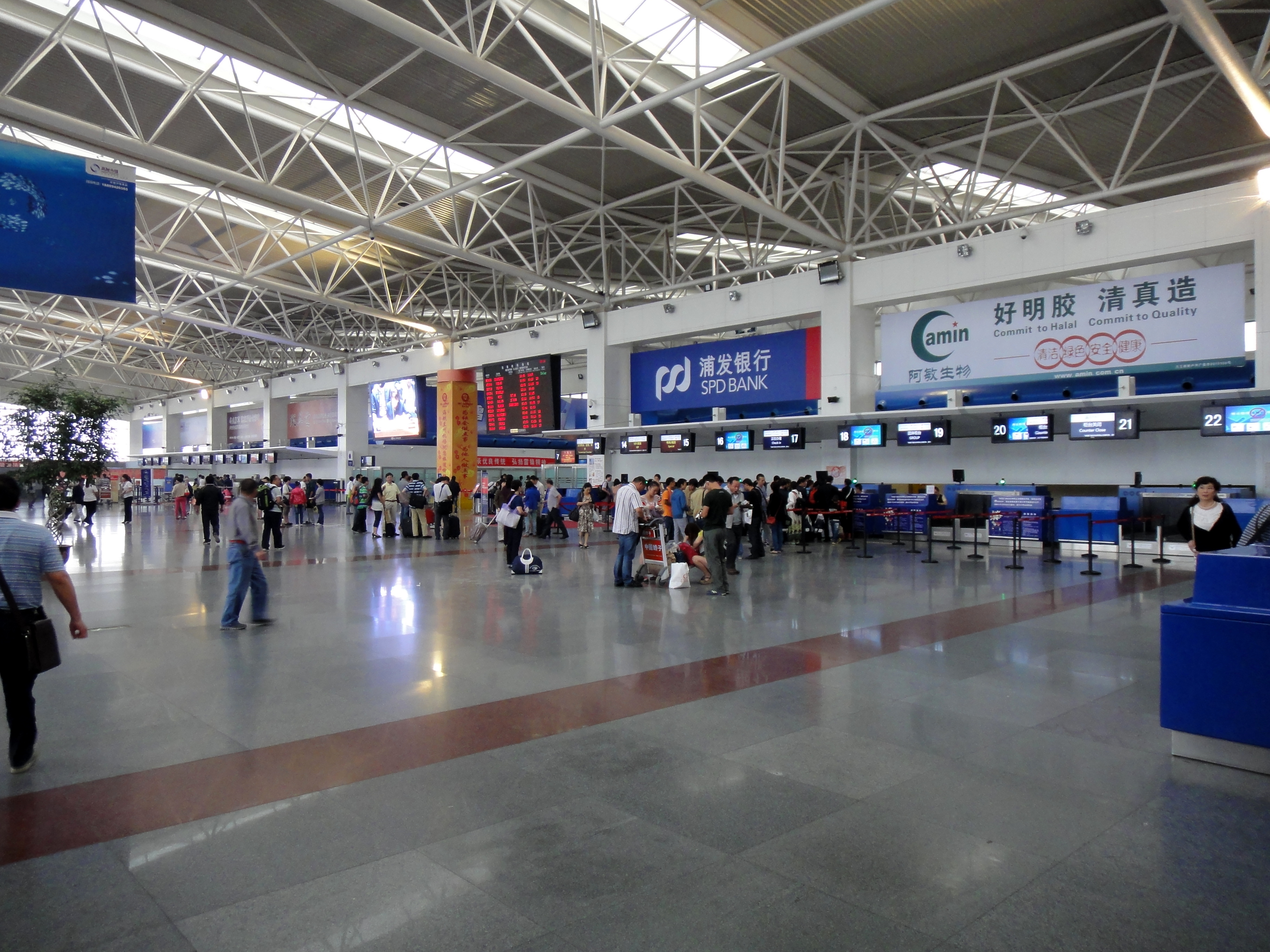 Departure Hall of Lanzhou Airport